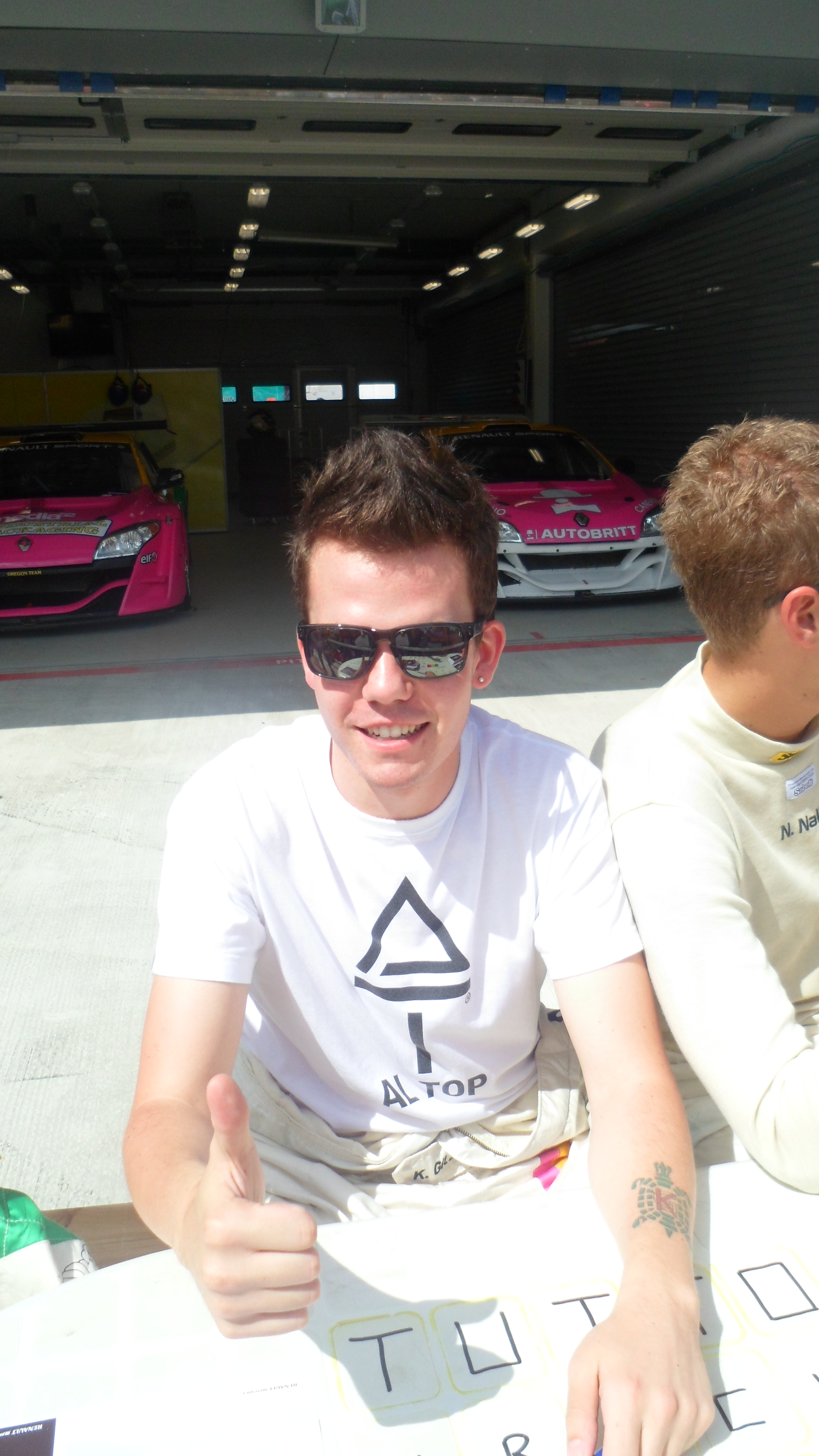 Kevin Gilardoni at Moscow Raceway